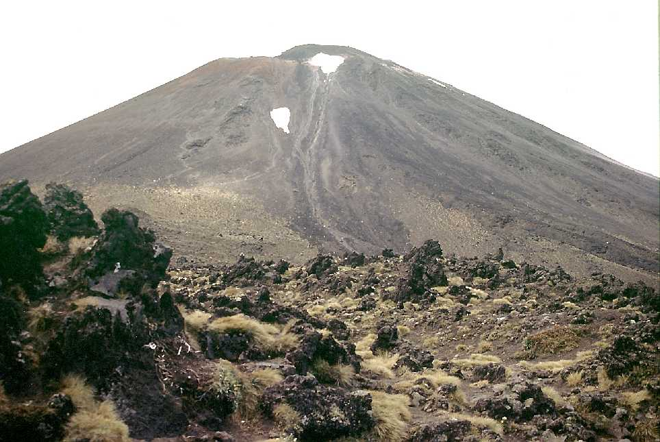 Mount Ngauruhoe im Tongariro-Nationalpark, Neuseeland, Nordinsel